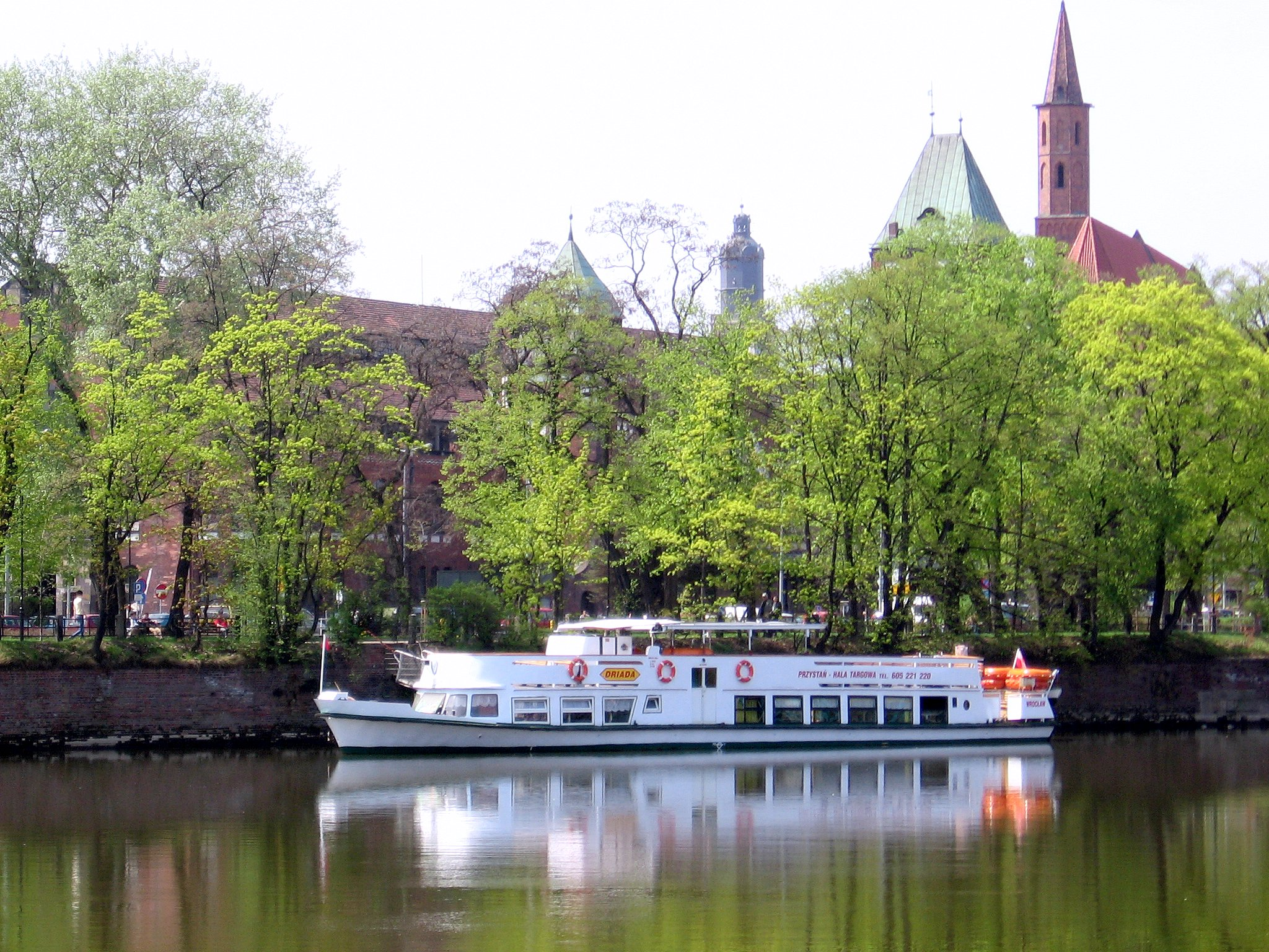 Wrocław, Poland - tourist ship on Oder River